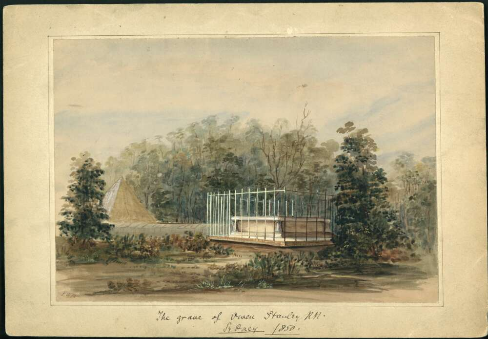 The grave of Owen Stanley, R.N., Sydney, 1850, by Edward Wolfe Brooker RN Inscription on gravestoneː Sacred to the memory of Owen Stanley Captain RN FRS FRAS who died in command of HMS Rattlesnake at Port Jackson, March 13 1850, aged 38 years. Funeralː funeral at St Thomas Church in St Leonards Cemetery locationː West Street, Cammeray, Sydney